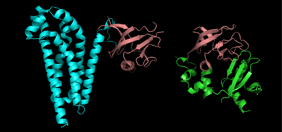 Example of local structural homology. The two shown proteins, Dbs (left) and Grb10 right, share a common PH domain (maroon), which binds phosphatidyl-inositol triphosphate.